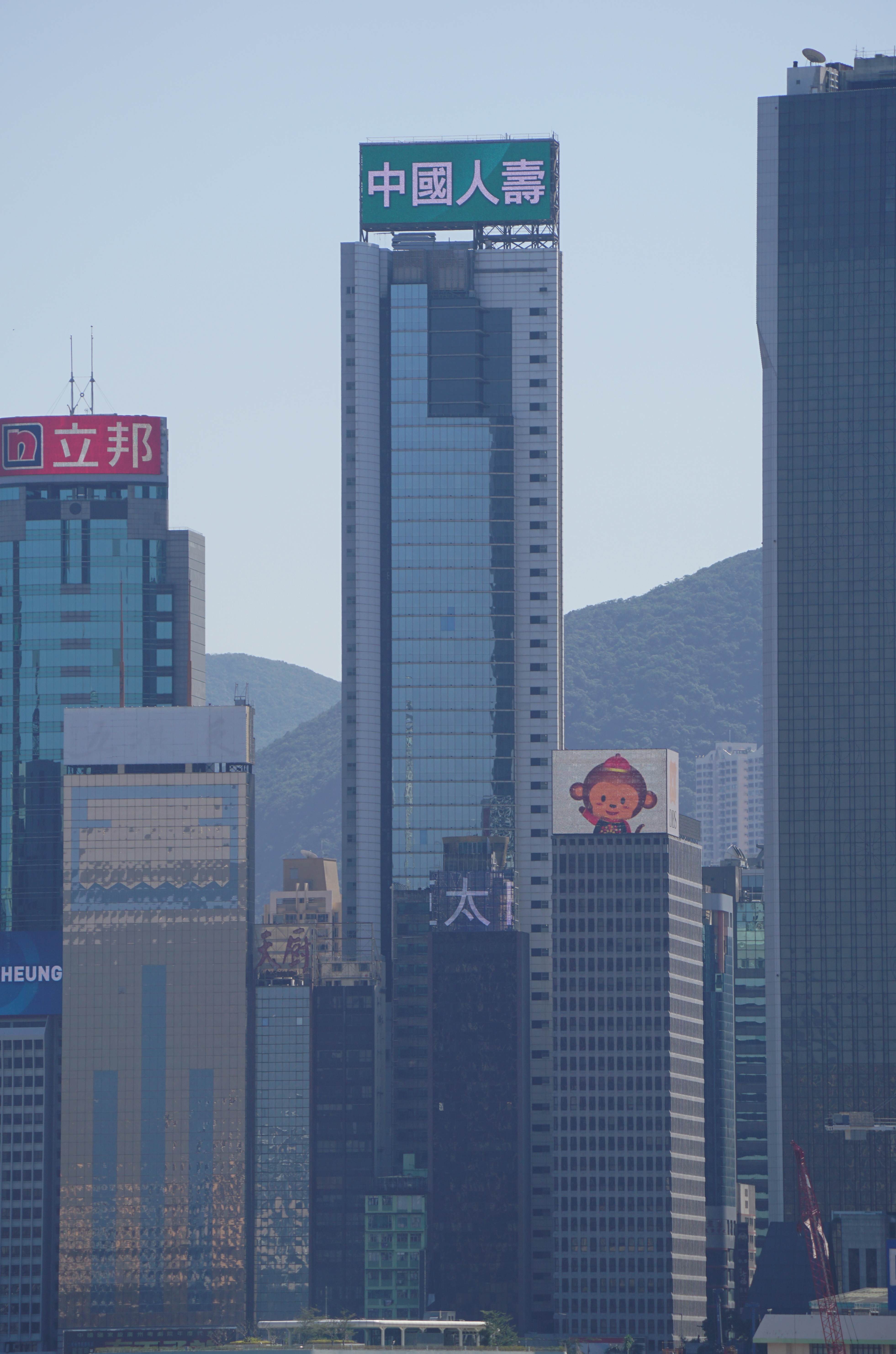 China Online Centre in Wan Chai, Hong Kong.